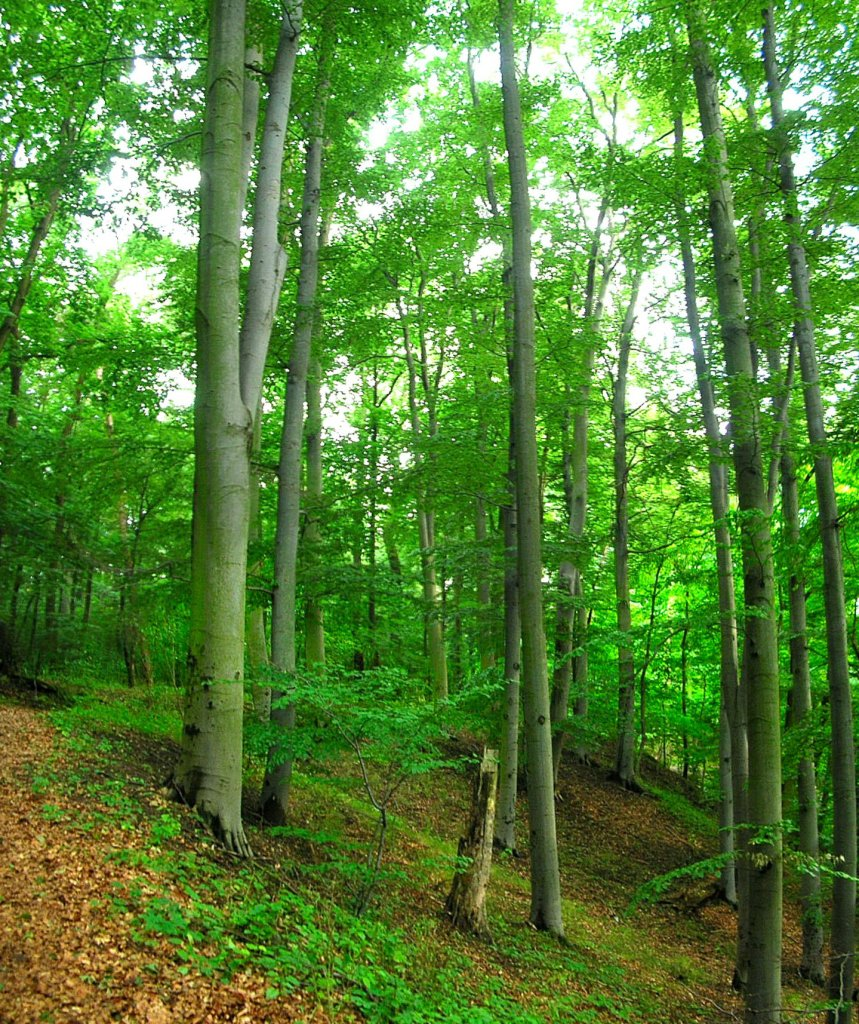 Nature reserve Las Mariański